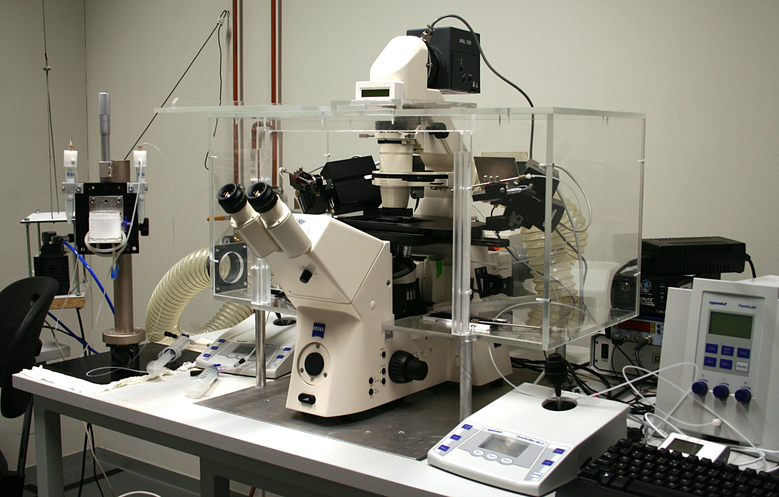 Microscopic station with micromanipulators and microinjectors.